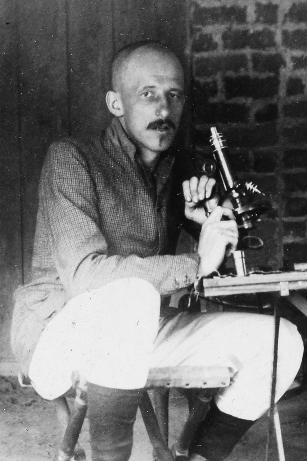 Photograph of JL Todd seated at a table with a microscope during an expedition to the Congo by Liverpool School of Tropical Medicine, 1903-5. The objectives of the expedition were to continue the work on trypanosomiasis commenced in 1902-3, to study other tropical diseases of men and animals, and to report on the sanitation of European communities in the Congo Free State.